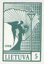 Definitive issue.Angel and map. Date of issue: 7th October 1990 Designer: V. Skabeikiene Paper: thick white wove without gum Printing process: offset Perforation: imperforated Size: 25 x 31 mm Sheet composition: 50 (10 x 5) stamps Printing run: No 457 - 2.404.800; No 458 - 1.078.350; No 459, 460 - 527.000 Michel catalogue numbers: 457-460 5 (k). deep blue-green. Angel and map (The 1st stamp of modern Lithuania!)